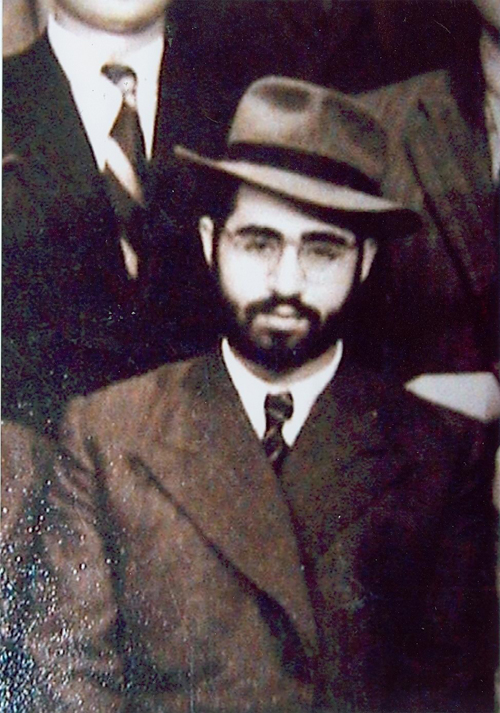 Ovadia Yosef.